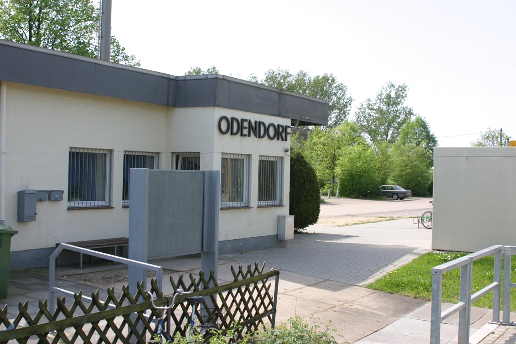 Odendorf station at the railway line Voreifelbahn in Swisttal